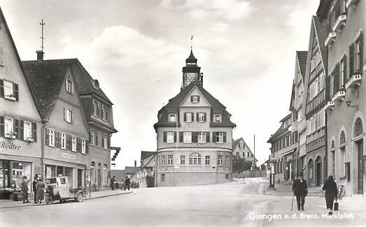 Old marketplace of Giengen, a Free Imperial City until 1803. Cropped from a postcard from the late 1930s.